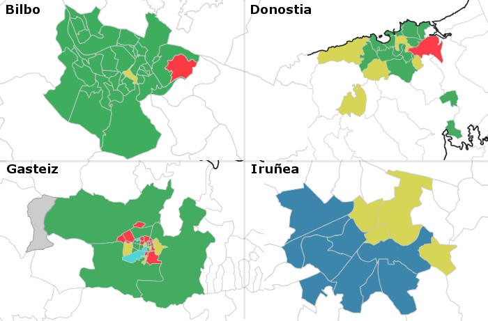 Results of the municipal elections of 2019 neighborhood by neighborhood: Bilbao, Donostia-San Sebastian, Gasteiz-Vitoria and Iruñea-Pamplona